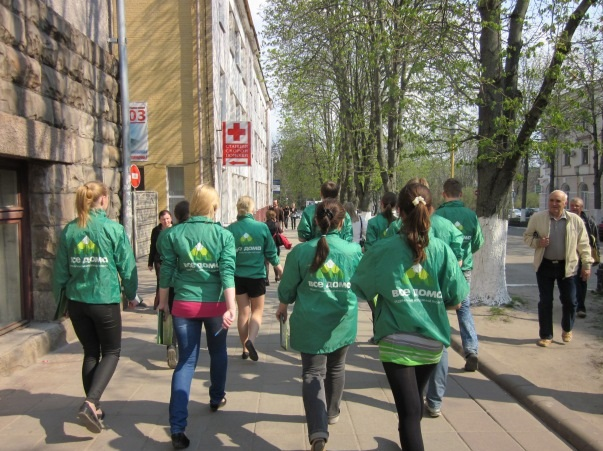 Project All Homes, youth movement Nashi, city Bryansk